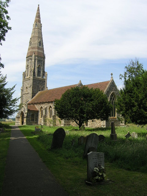 St Andrew's parish church, Great Finborough, Suffolk, seen from the southeast